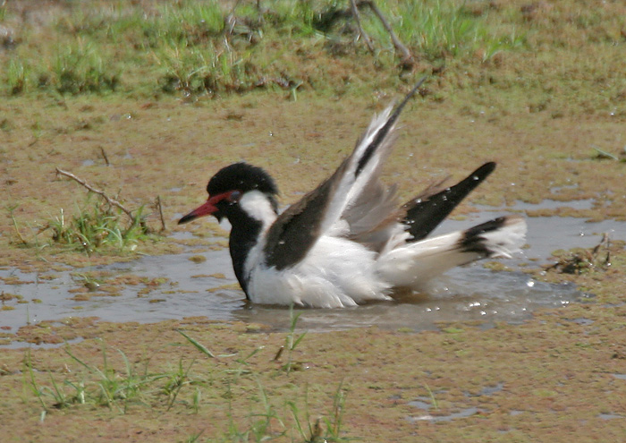 Red-wattled Lapwing Vanellus indicus at Keoladeo National Park, Bharatpur, Rajasthan, India.